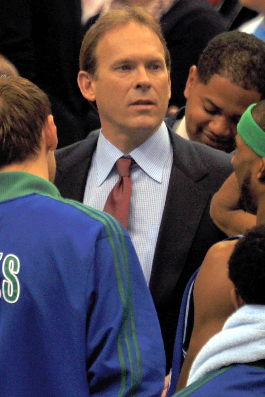 Kurt Rambis, head coach of the Minnesota Timberwolves.